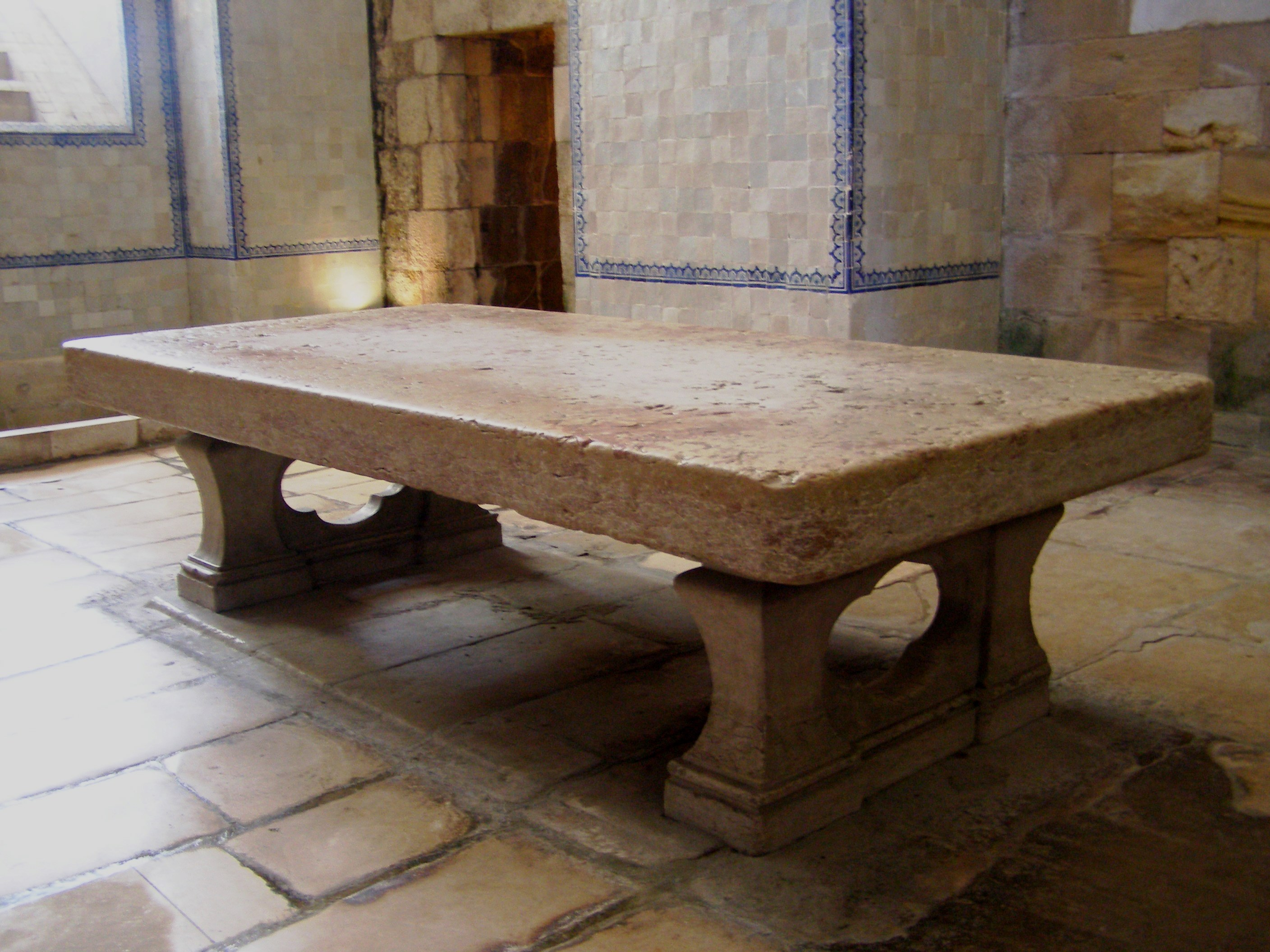 Stone table in the kitchen, about 4 metres long. Monastery of Alcobaça, Alcobaça, Portugal.